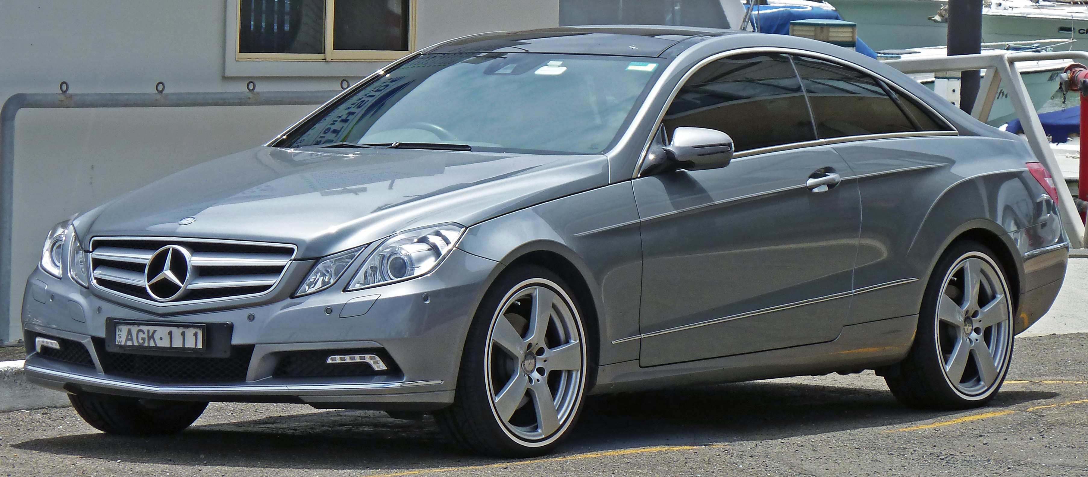 2010 Mercedes-Benz 350 (C 207) Avantgarde coupe. Photographed in Sans Souci, New South Wales, Australia.